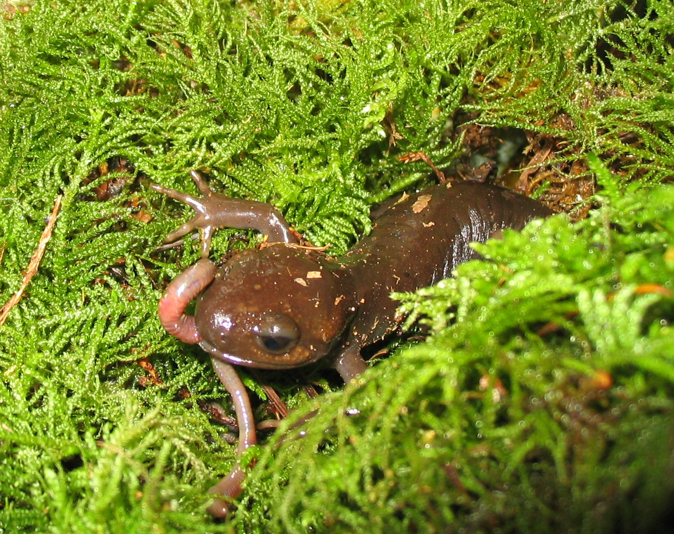 A northwestern salamander (Ambystoma gracile) eating a wormMacWorm